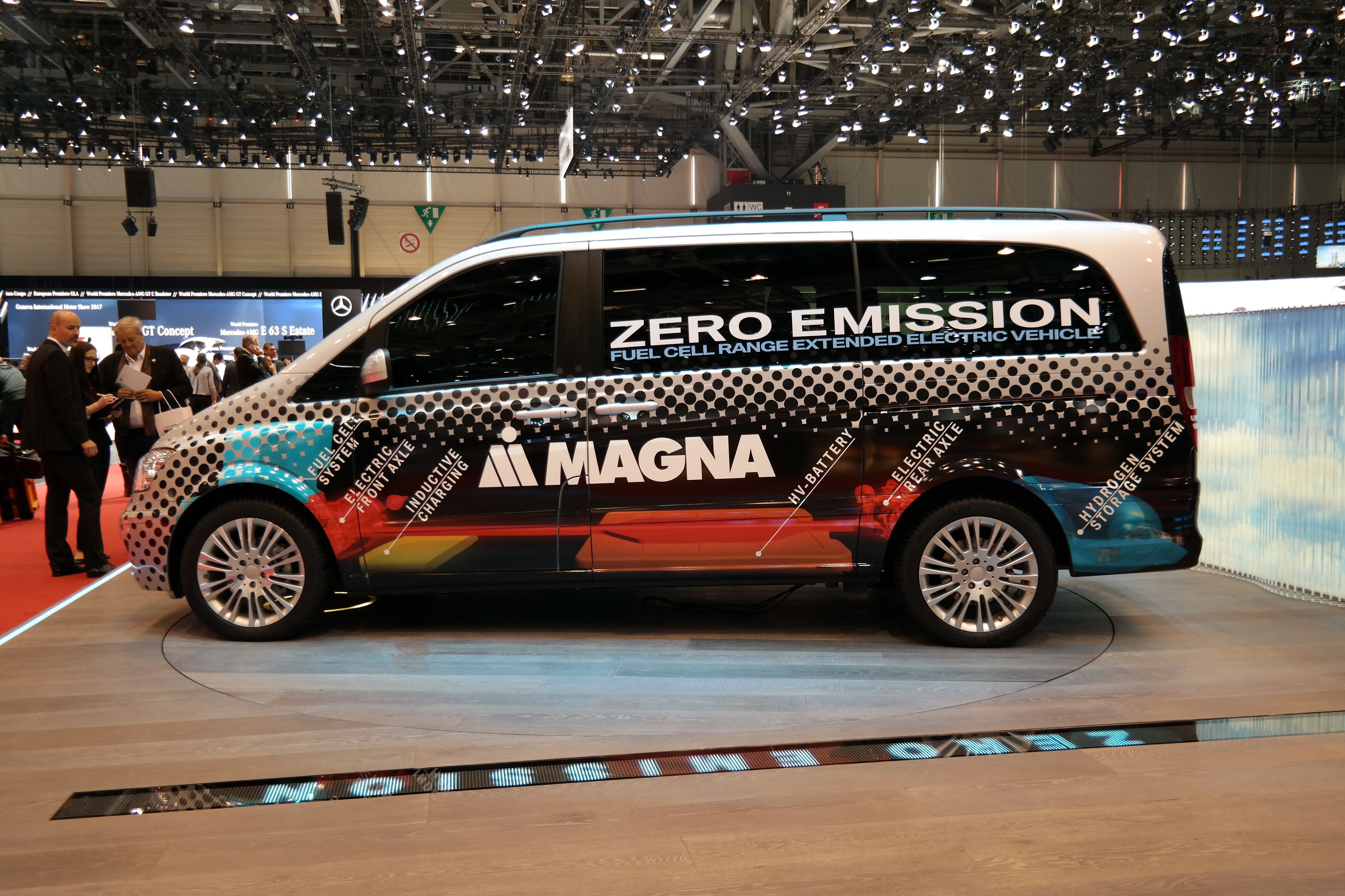 Geneva Motor Show 2017 (photo taken on the first press day)